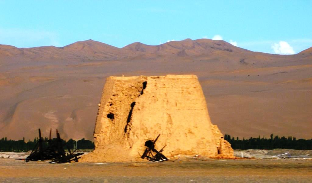 I took this photo myself on a trip in 2011